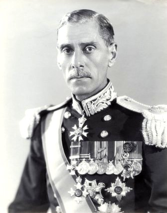 SSir (George) Stewart Symes by Bassano. 12 July 1938